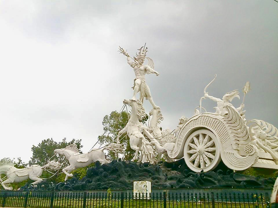 Ghatotkacha is the son of Bhima and is fighting for the Pandavas. He stands over the horses. Karna is fighting for the Kauravas and is in the chariot. A similar sculpture is found near the Denpasar, Bali International airport, Indonesia. It is at the only highway entrance in the northeast corner of the airport, and is called the Patung Satria Gatotkaca (lit. sculpture of Kshatriya Ghatotkacha). The two artworks are similar, though the details vary (such as spokes in the chariot wheel – 12 vs 16, the location of the wheel – inside or outside the cover, where exactly Ghatotkacha is standing, the presence of mythic makaras on the side of the scene at Bali, etc). This image is a derivative exposure-adjustment etc work on Karna Ghatotkach Fight.jpg, found with wikimedia commons CC license.